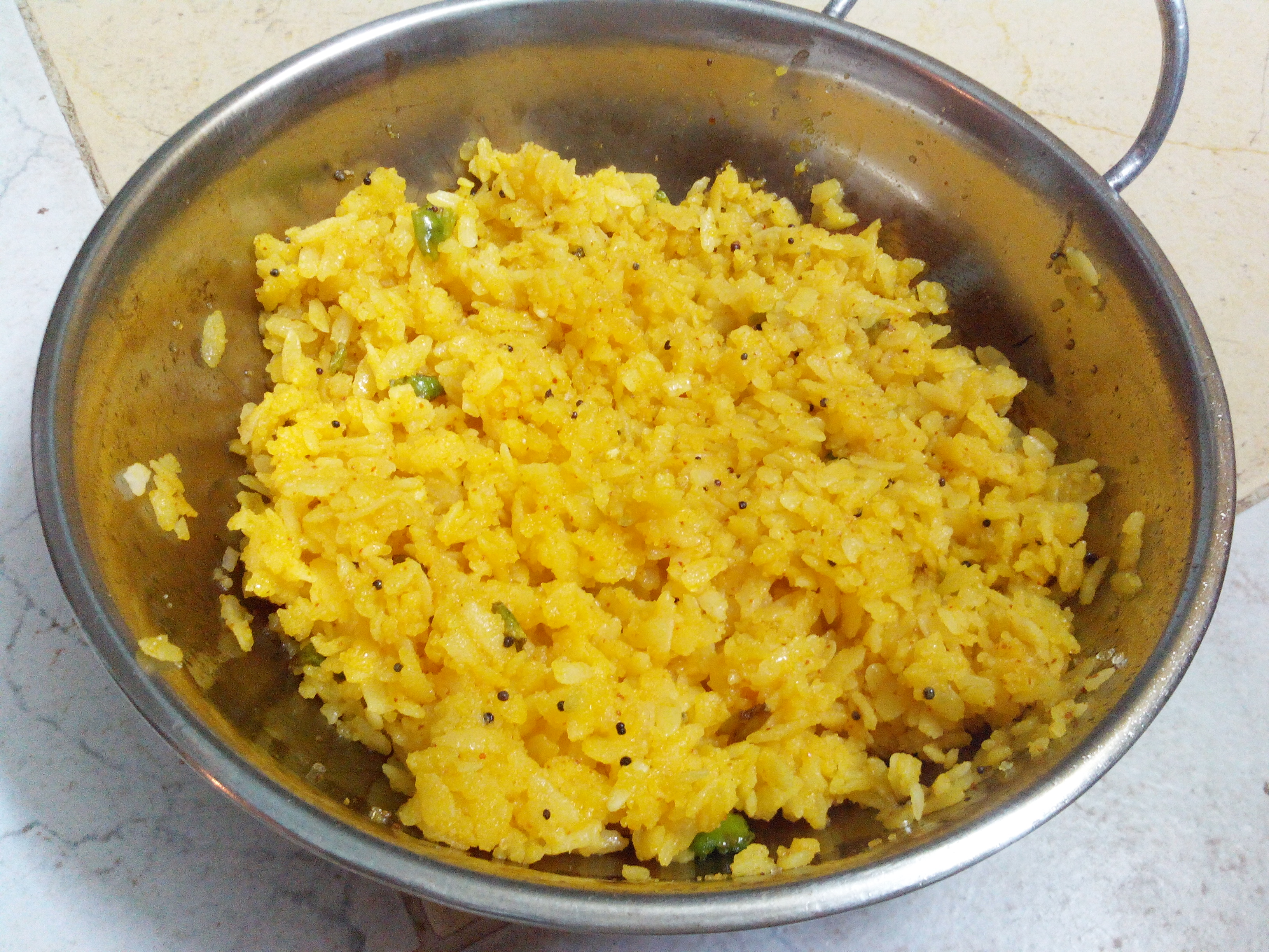 cooked spicy rice flakes, locally known as Poha or Pauva from Gujarat, India. They are also prepared in many other parts of India.